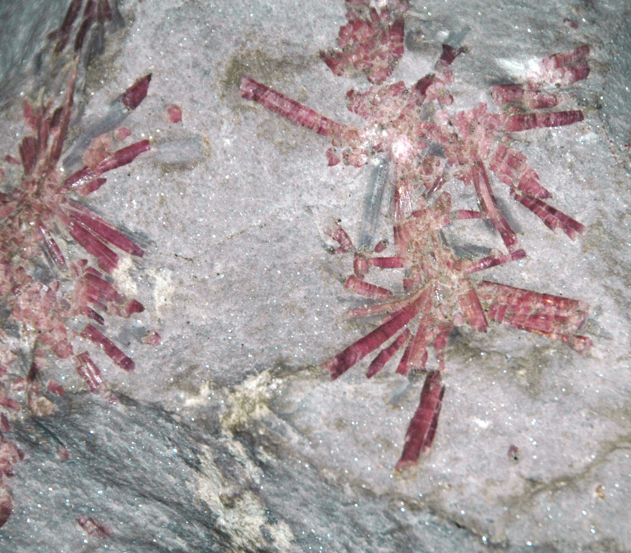 Lithia pegmatite with radiating clusters of dark pinkish rubellite tourmaline in lepidolite mica matrix. (Colorado School of Mines Geology Museum, Golden, Colorado, USA) The Pala Pegmatite of southern California is unusual for having pockets of lithium-rich minerals. The samples shown here are lithia pegmatites consisting of grayish-purple lepidolite mica (KLi2Al(Al,Si)3O10(F,OH)2 - potassium lithium fluoro-hydroxy-aluminosilicate) and deep pink rubellite tourmaline (Na(Li,Al)3Al6(BO3)3Si6O18(OH)4 - sodium lithium hydroxy-boro-aluminosilicate). The lithia pegmatites occur as pockets within the granitic Pala Pegmatite (Peninsula Ranges Batholith/Southern California Batholith). The Pala Pegmatite was emplaced about 104-105 million years ago, during the Albian Stage of the late Early Cretaceous. Locality: Stewart Mine, NNE of the town of Pala, northwestern San Diego County, southern California, USA (33º 22’ 52” North, 117º 03’ 49” West).